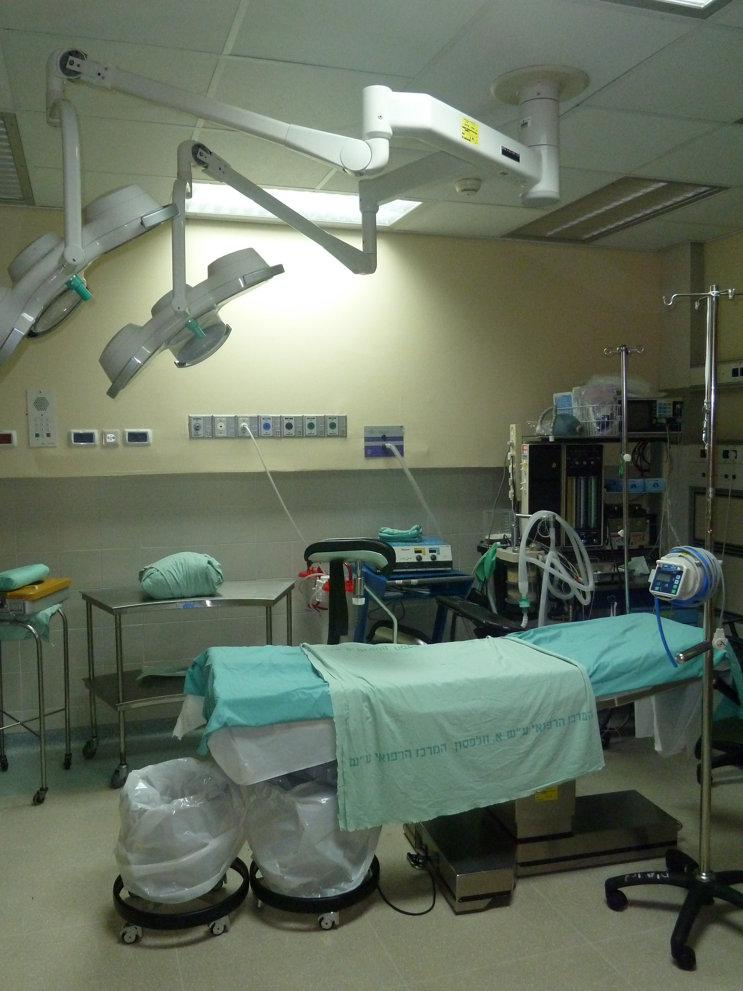 Edith Wolfson Medical Center, Holon, Israel